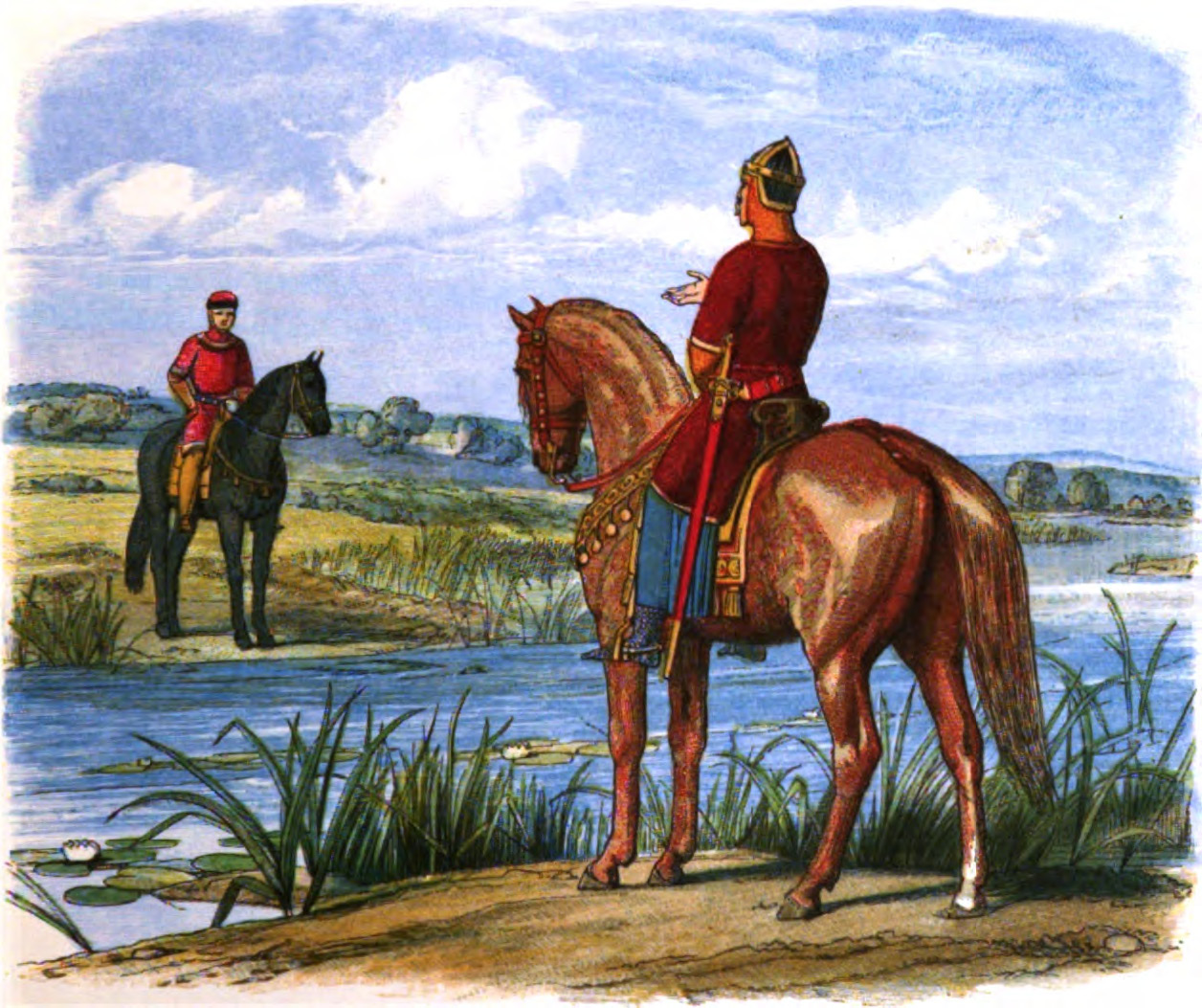 Stephen and Henry discuss across the River Thames how to settle the succession of the English throne.